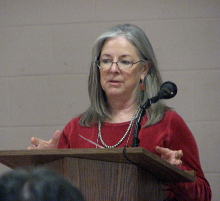 Chickasaw writer and educator Linda Hogan, speaking at the Caddo Tribal Complex in Binger, Oklahoma